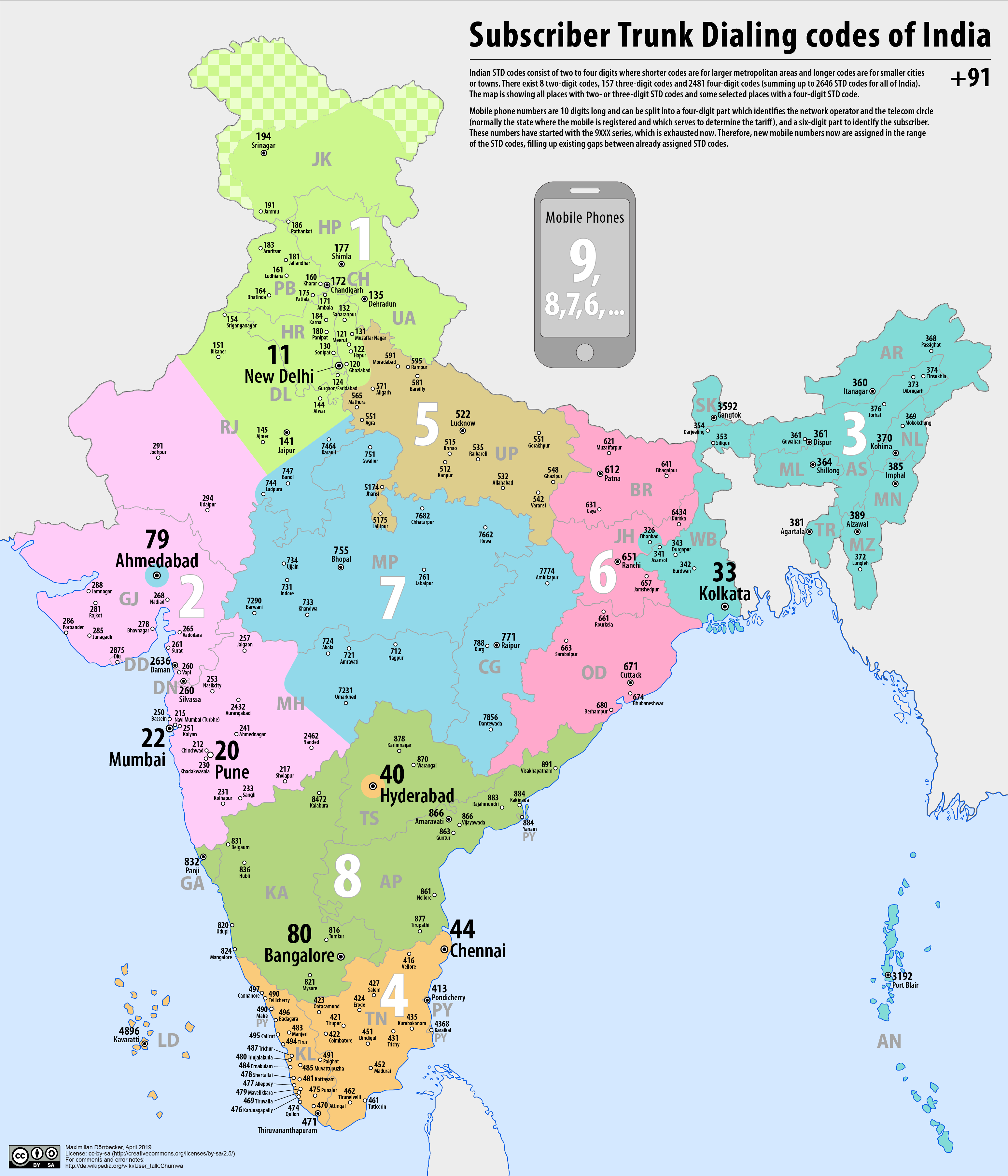 Map of the Subscriber Trunk Dialing codes (STD codes) of the telephony network of India